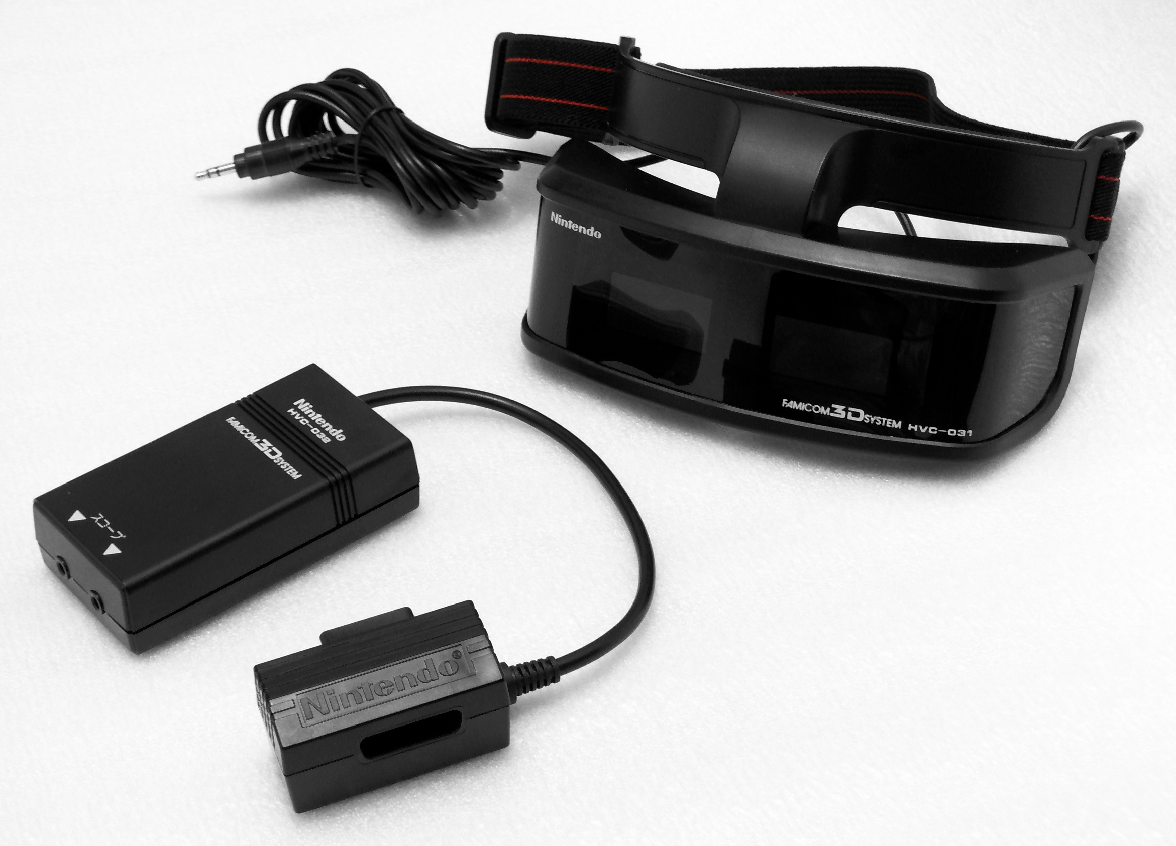 Famicom 3D System, a liquid crystal shutter headset for the Nintendo Famicom which gives a 3D effect on specially-designed games. The small box marked "Nintendo" connects to the Famicom expansion port, and has a pass-through connector so it can be used in conjunction with other devices like joysticks. Similar to the Sega Master System's 3D glasses. See: Image:master system 3d glasses.jpg